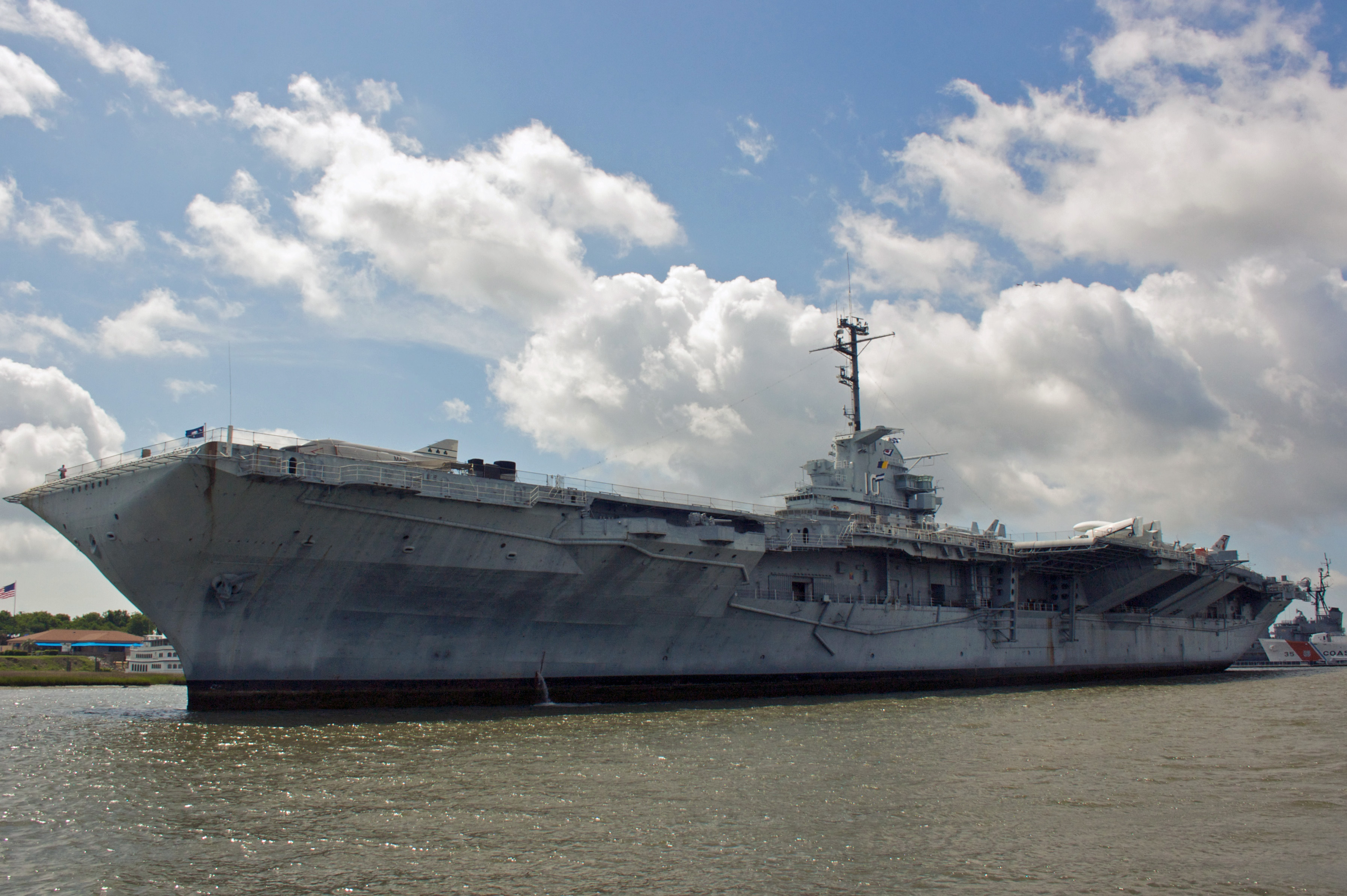 The USS Yorktown (CV-10) at the Patriots Point Naval and Maritime Museum in Charleston Harbor, South Carolina USA.